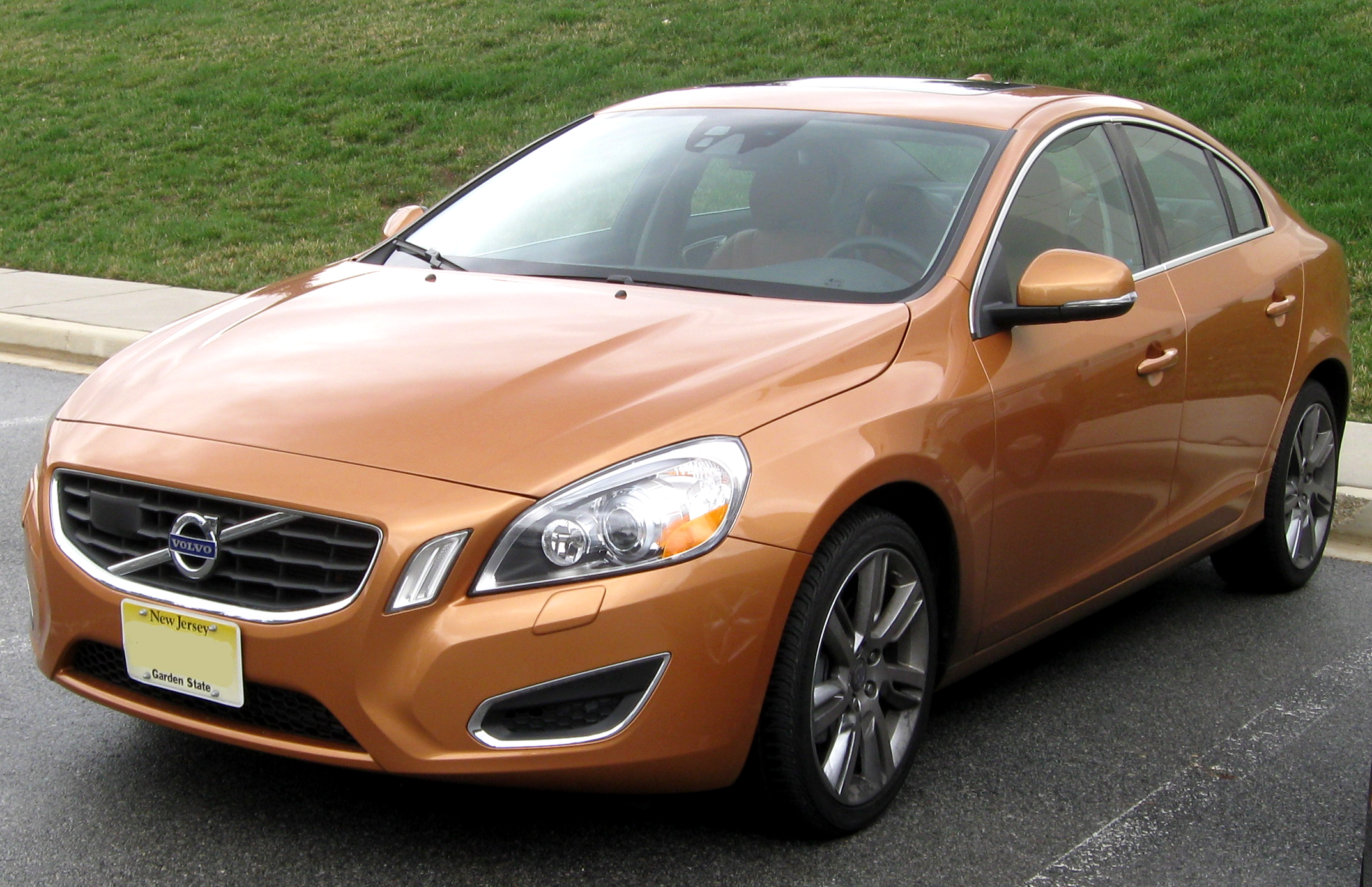 2012 Volvo S60 photographed in Upper Marlboro, Maryland, USA.